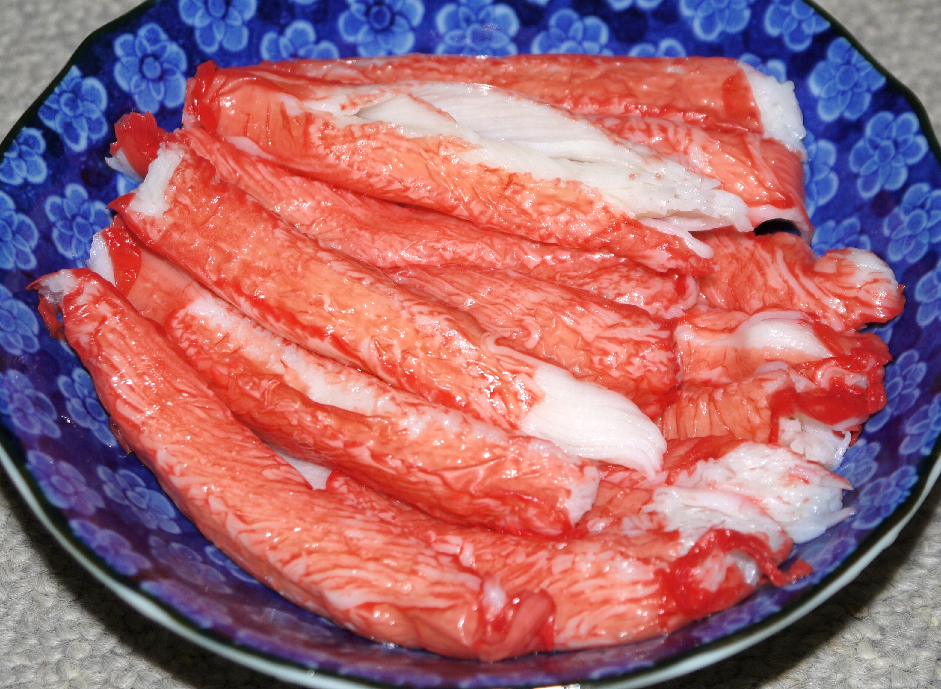 Japanese Binchōtan (Japanese high-grade charcoal produced from ubame oak).